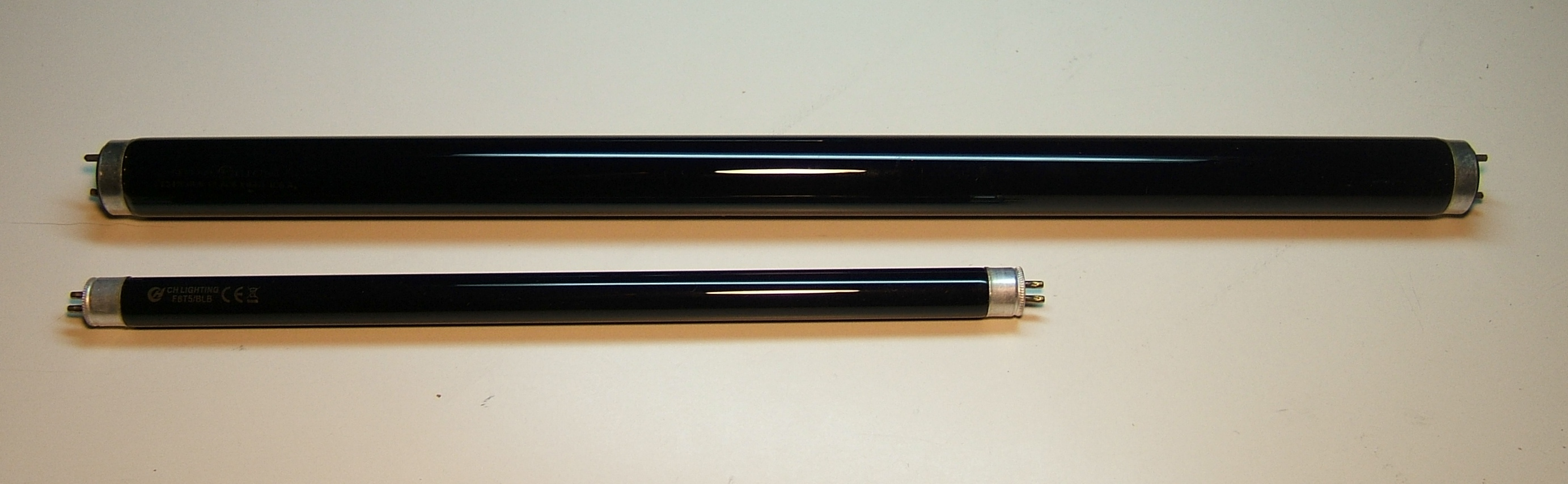 Two ultraviolet "black light" fluorescent tubes. The top one is a G.E. F15T8/BLB 18 inch 15 watt tube, used in standard plugin fixtures for special lighting effects, such as illuminating fluorescent posters. The bottom one is a F8T5/BLB 12 inch 8 watt tube, often used in portable battery-powered black light lamps for such uses as rock hunting, pet urine detection, and reading fluorescent security stamps. They emit long-wave (UVA) ultraviolet radiation, with a wavelength in the range 350 to 370 nm, which in general is not dangerous to the eyes or skin. These types of tubes, called in the lighting industry "blacklight blue", have an envelope with a deep blue-purple filtering material which filters out nearly all visible light from the inside, and passes ultraviolet. This filtering material was originally Wood's glass, a nickel oxide-doped glass, but because its physical characteristics made it unsuitable for light bulb envelopes, modern tubes use a filter coating on an ordinary glass tube.